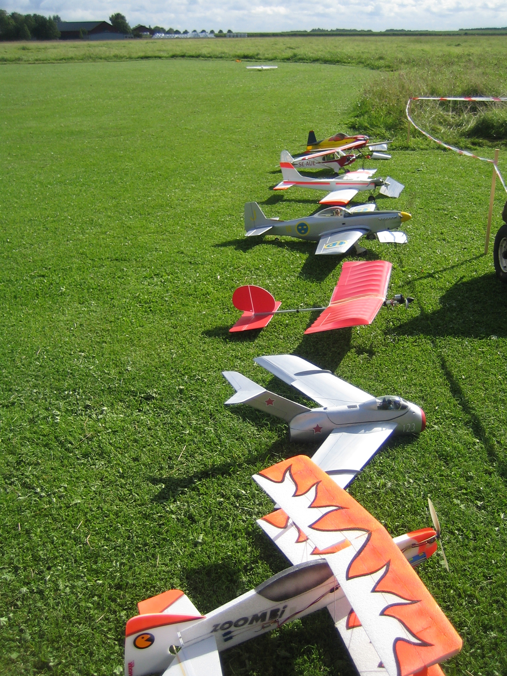 Radio Controlled airplanes